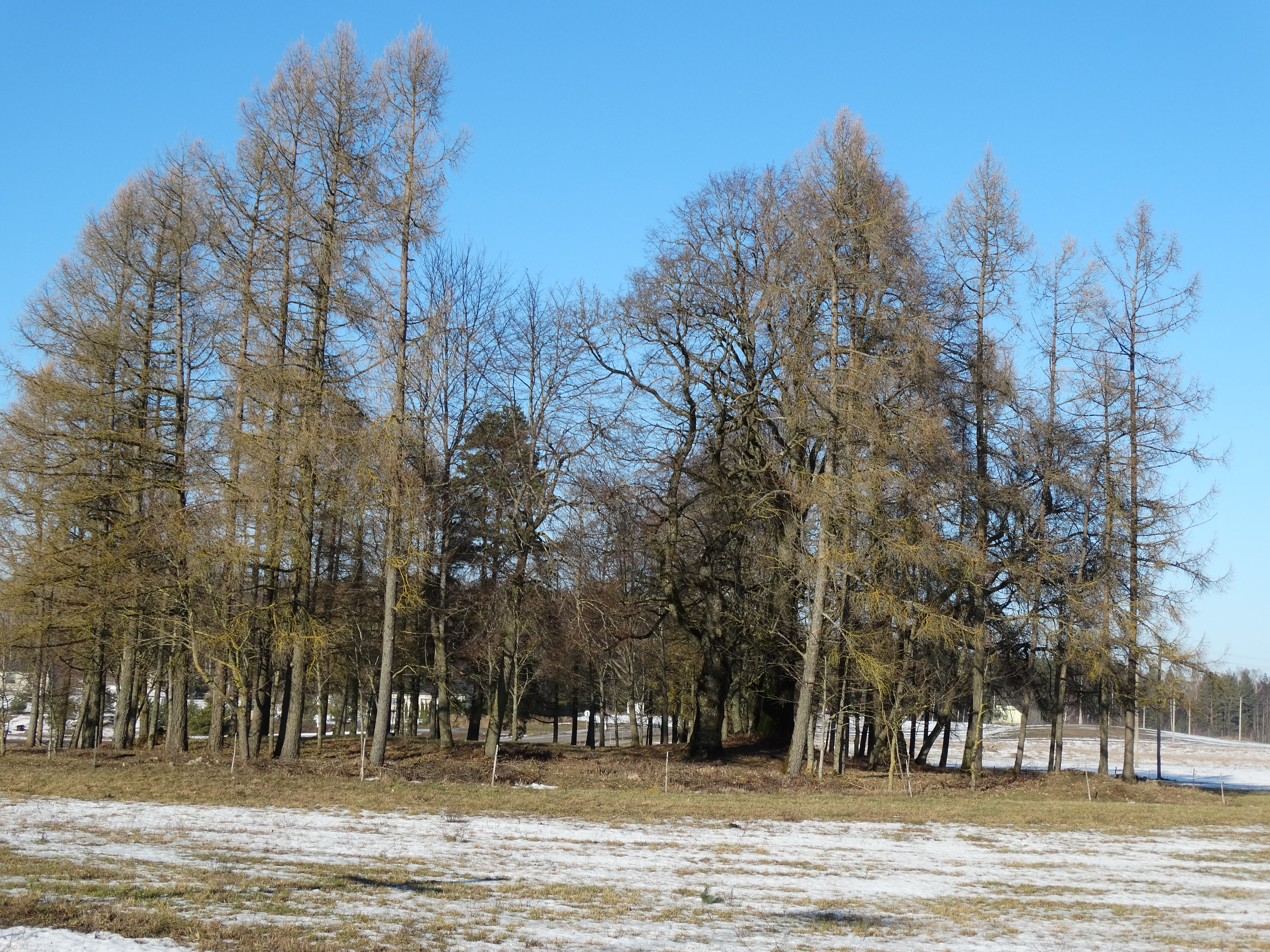 Barrow cemetery in Balsiai, Šilalė district, Lithuania